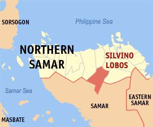 Map of Northern Samar showing the location of Silvino Lobos